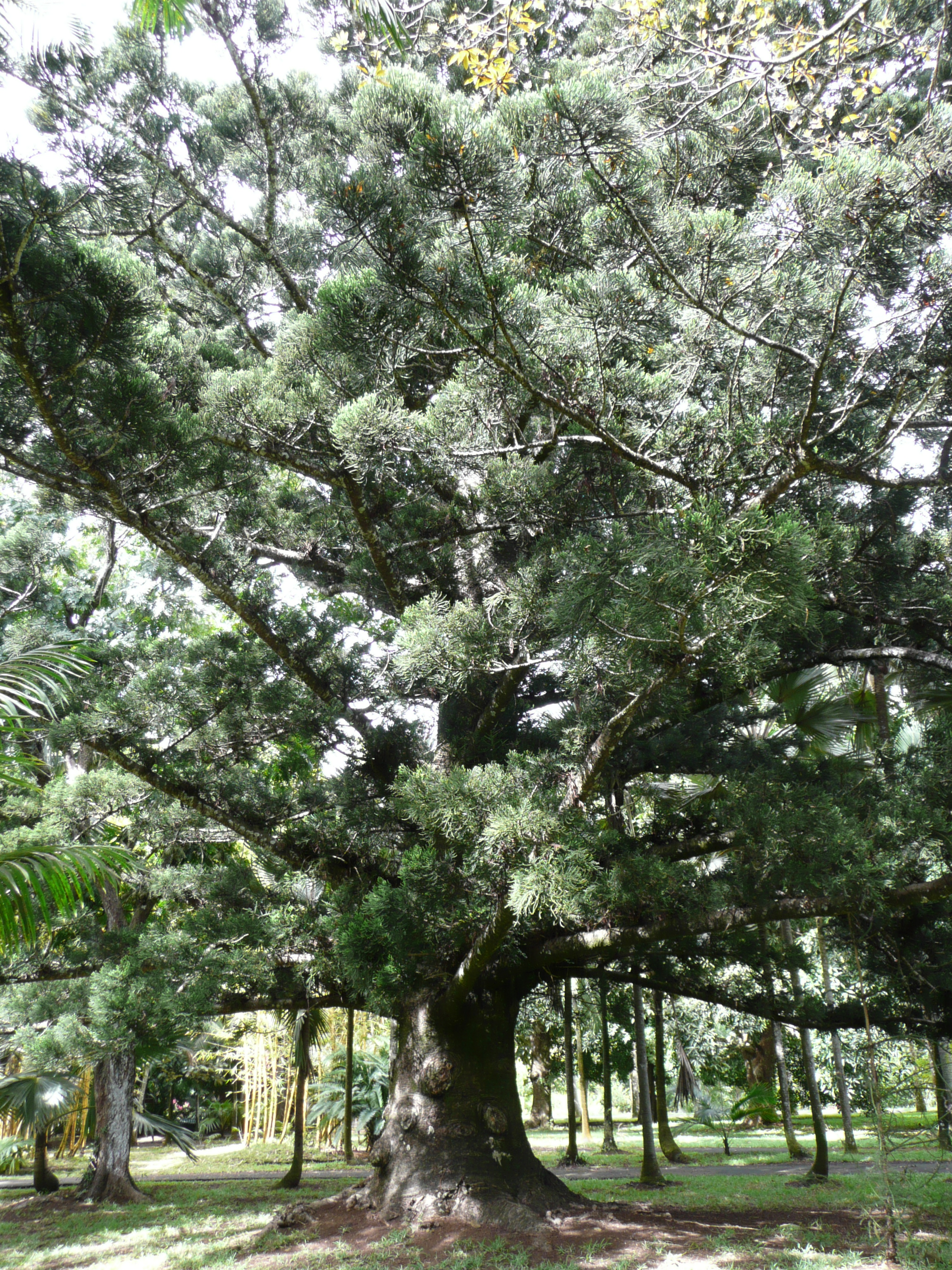 Araucaria cunninghamii in Sir Seewoosagur Ramgoolam Botanical Garden Map: 20° 6' 25" S 57° 34' 46" E